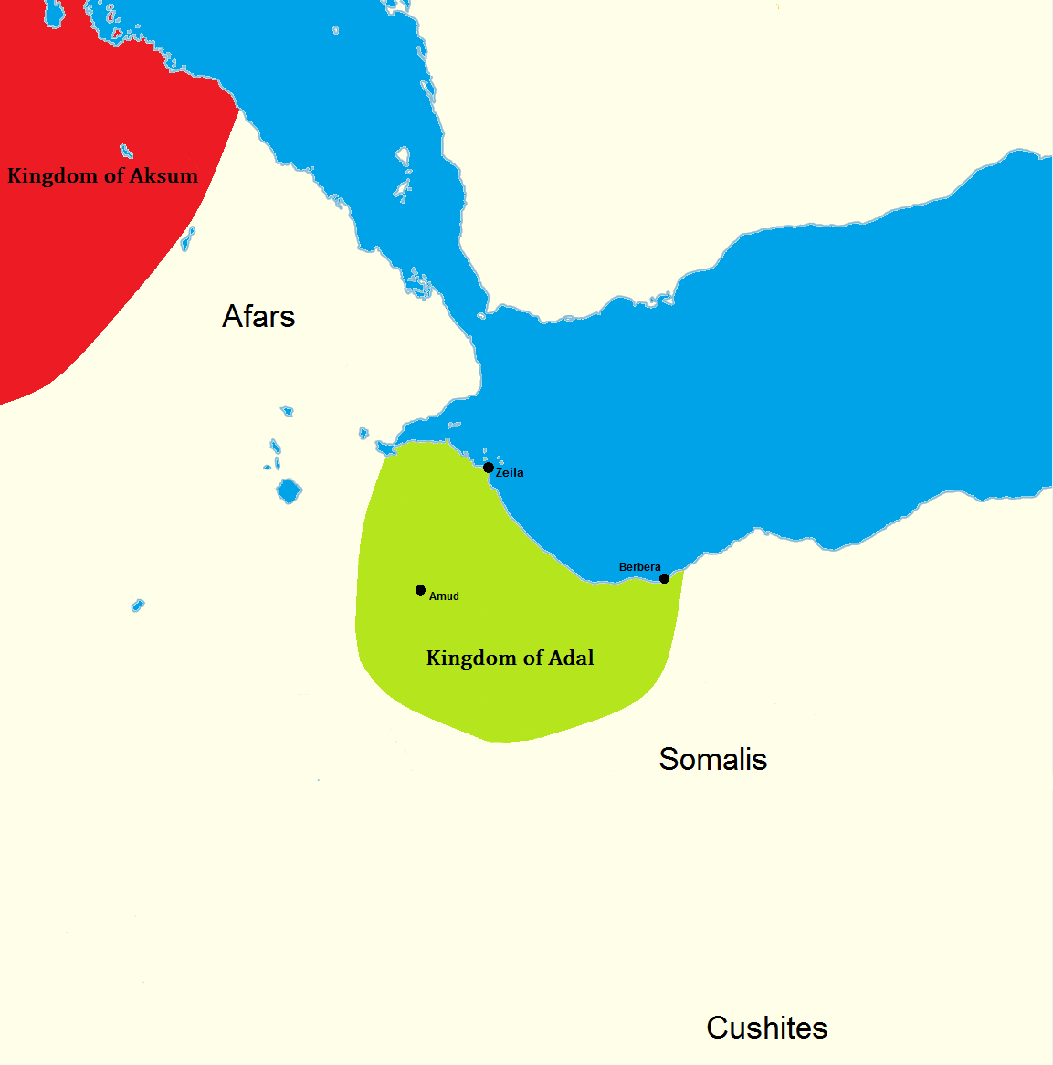 Adal Kingdom, this map is using multiple and disparate sources.